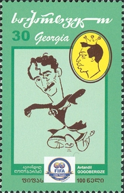 Stamps of Georgia, 2004